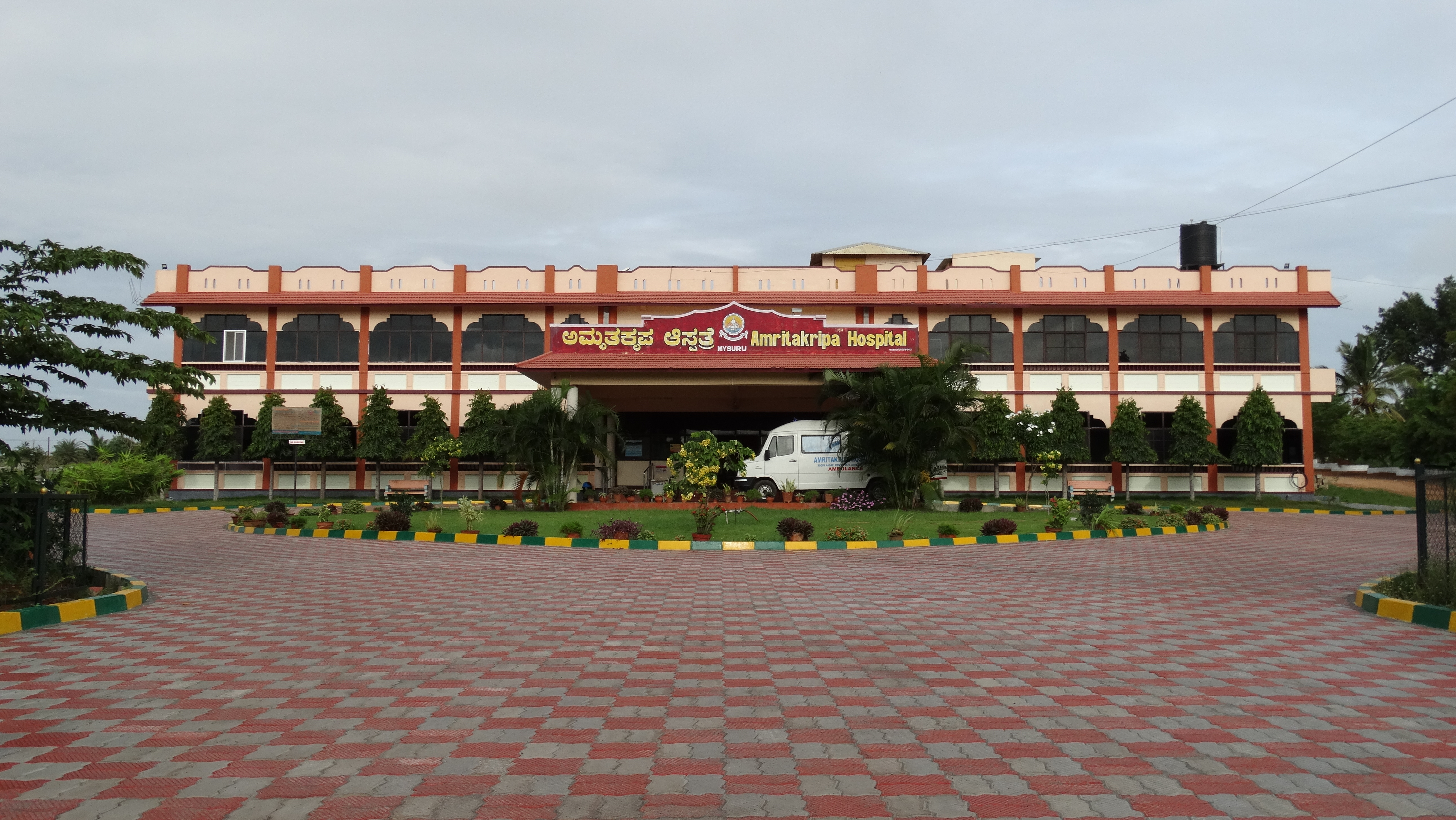 The first phase of a 50-bed general hospital has been completed, providing 20 beds. The hospital serves the needs of more than 100 poor villages in the area of Bogadi and has provision for a telemedicine link with AIMS.